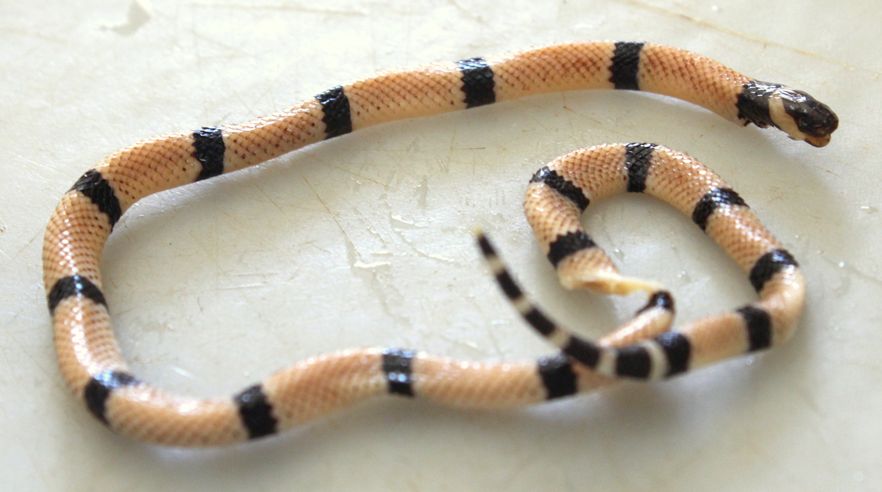 Dead painted coral snake (Micrurus corallinus) from the biological collection of Universidade Federal de Viçosa (UFV), Brazil.